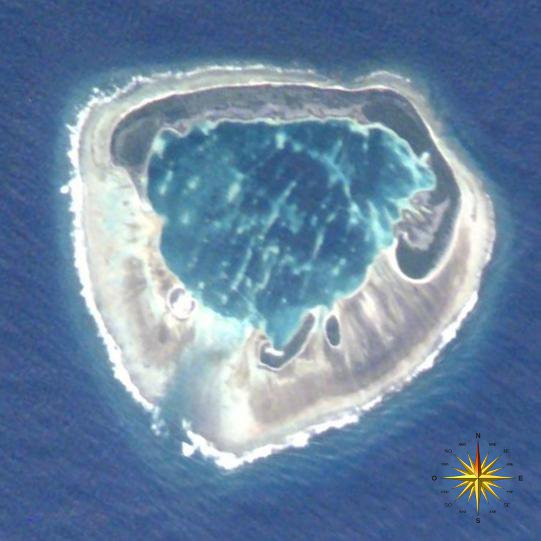 Ducie island as photographed by NASA in 2001.